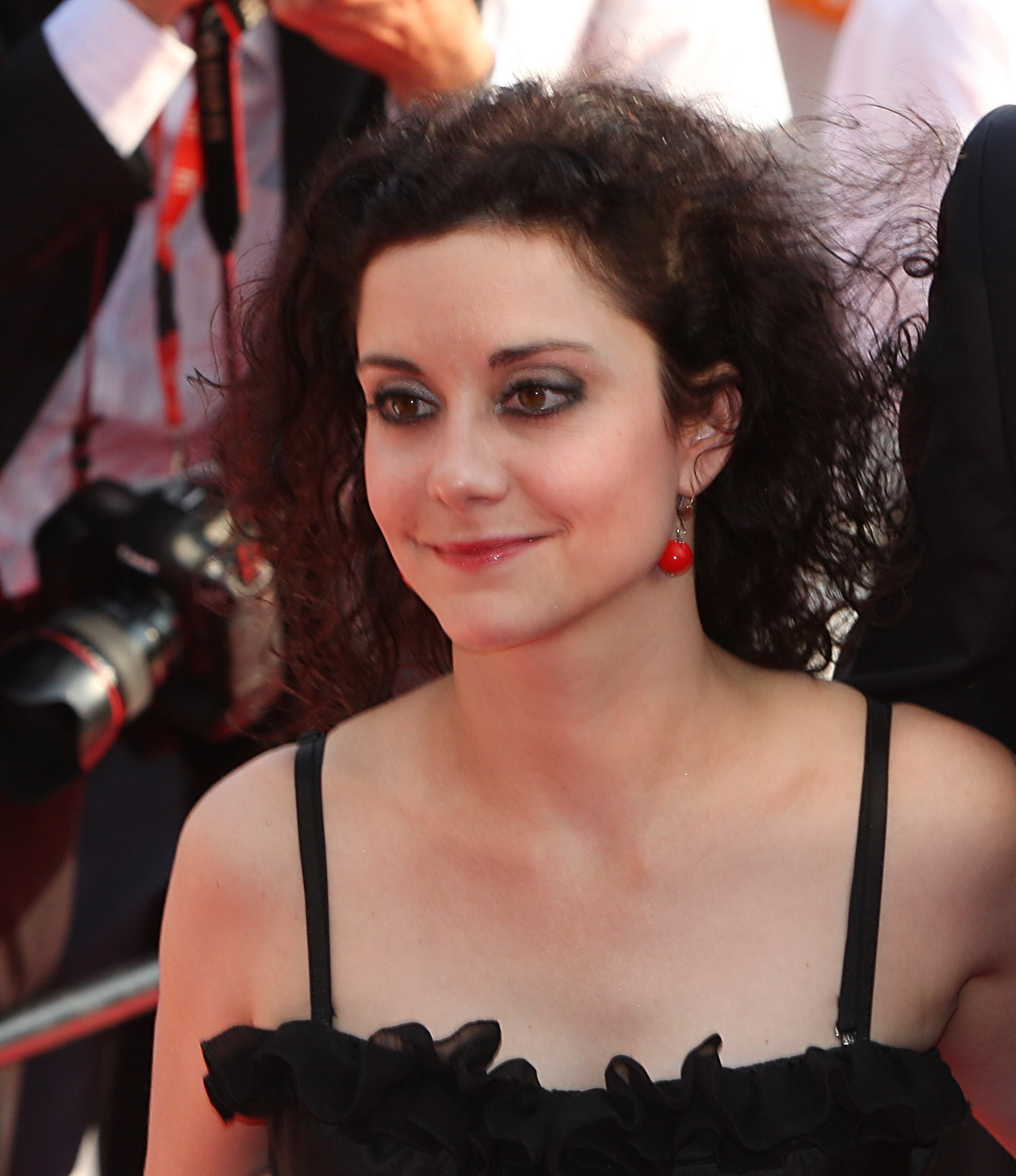 Slovak singer Lucia Šoralová at 2010 Karlovy Vary International Film Festival